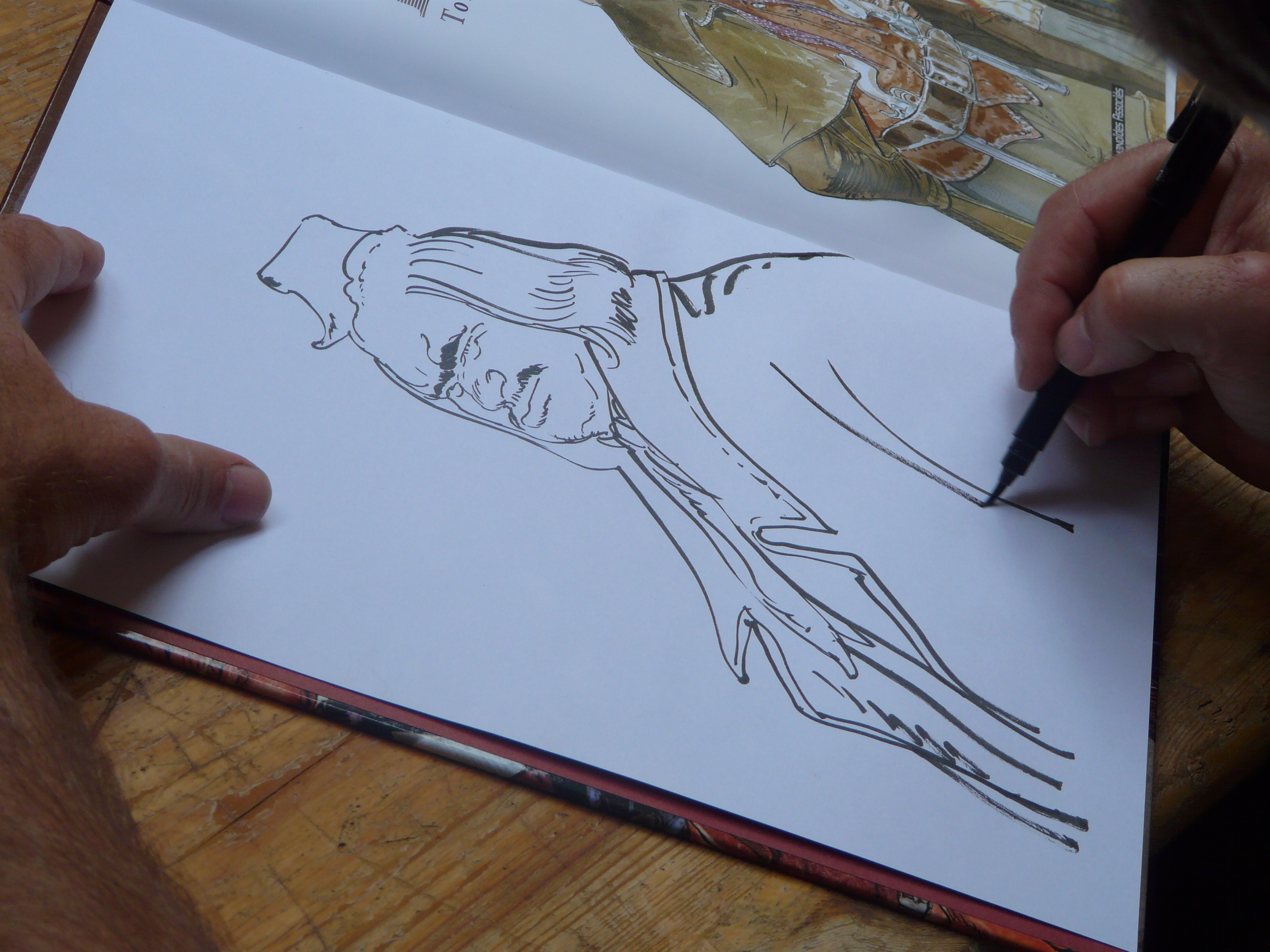 Photographs taken during the International Comic Festival of Sollies Ville, France